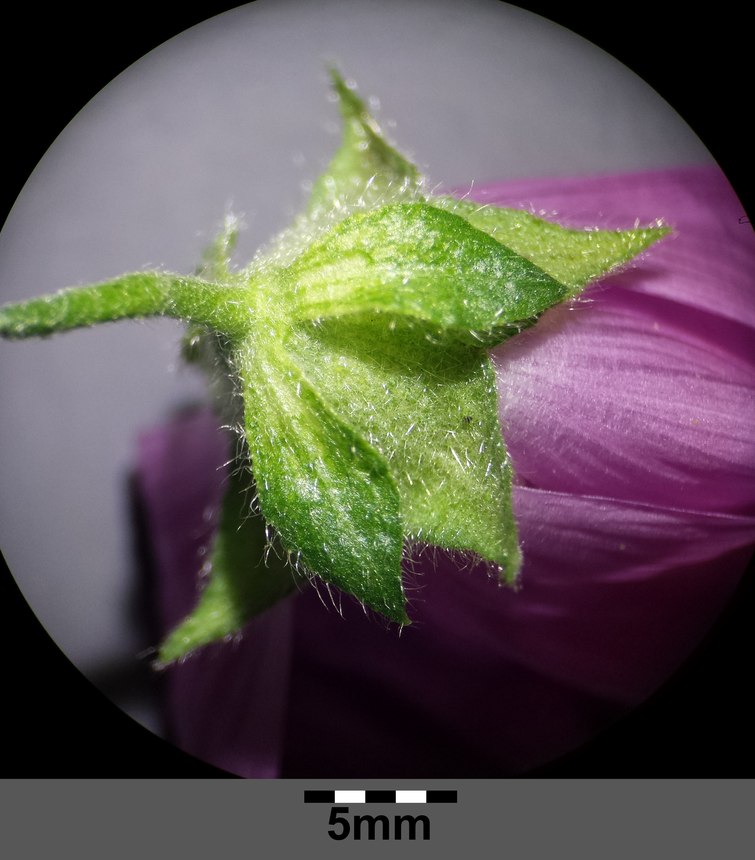 Calyx and outer calyx Taxonym: Malva alcea ss Fischer et al. EfÖLS 2008 ISBN 978-3-85474-187-9 Location: Merkersdorf, district Korneuburg, Lower Austria - ca. 250 m a.s.l. Habitat: ruderal meadows